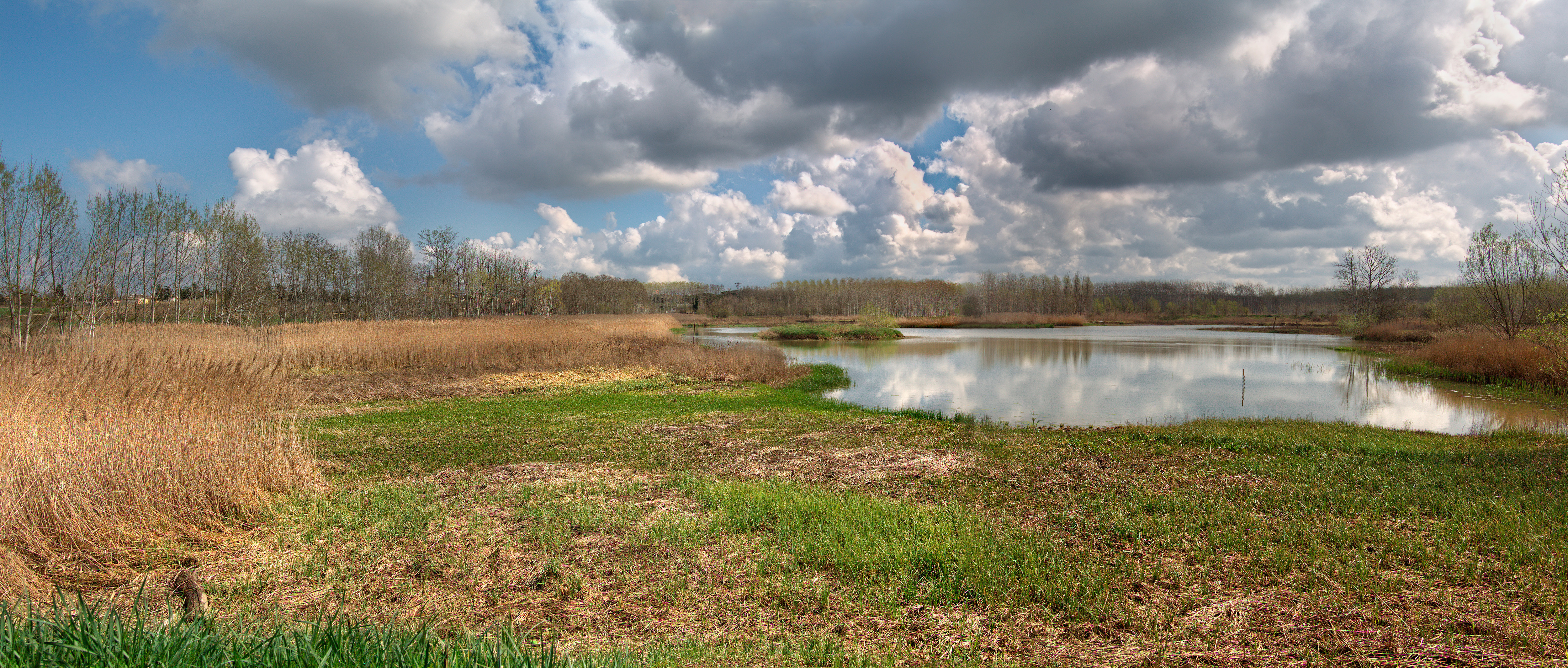 This is a a photo of a natural area in Catalonia, Spain, with id: ES510109